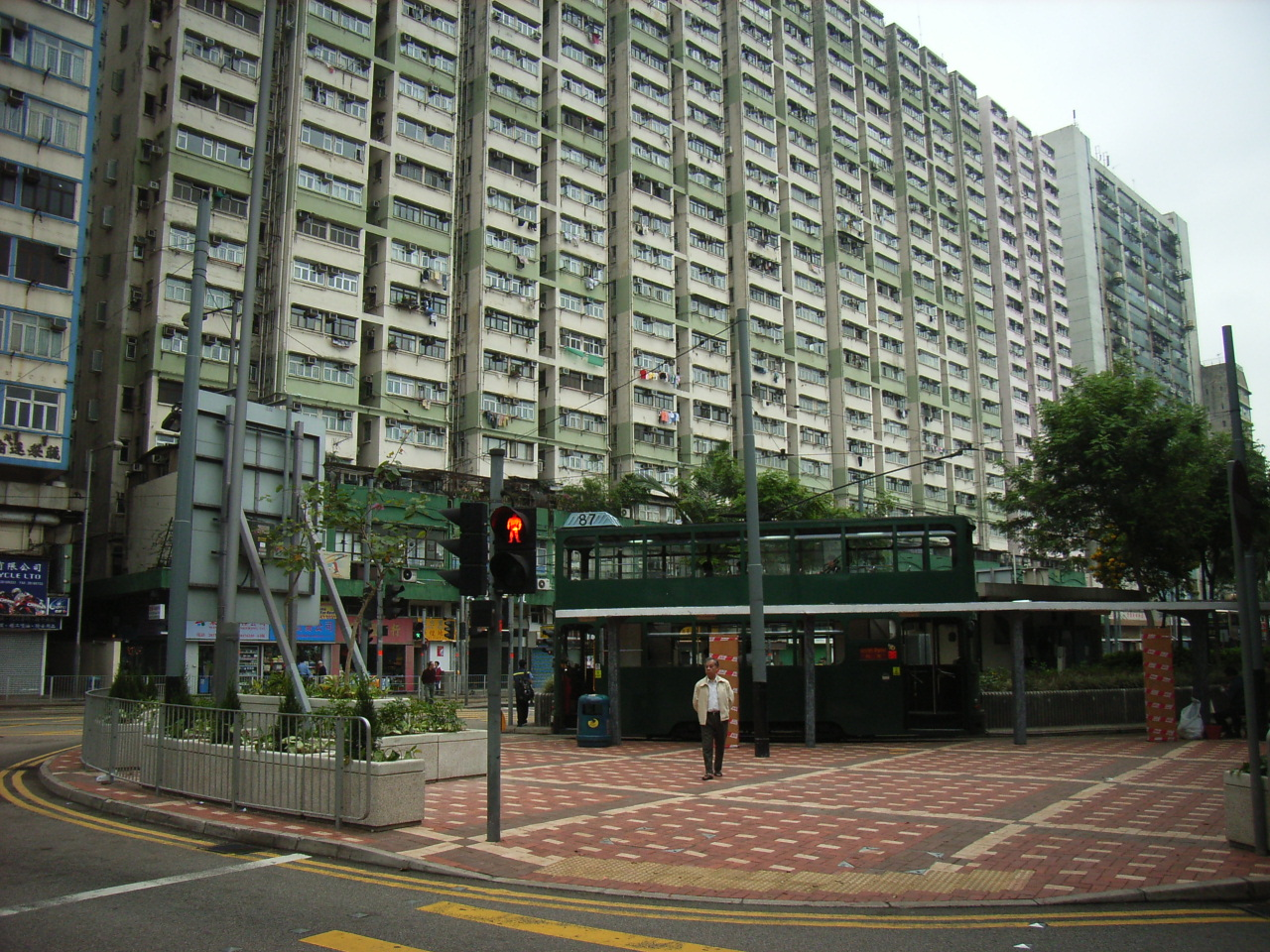 屈地街電車總站 Whitty Street tram station, Shek Tong Tsui, HK